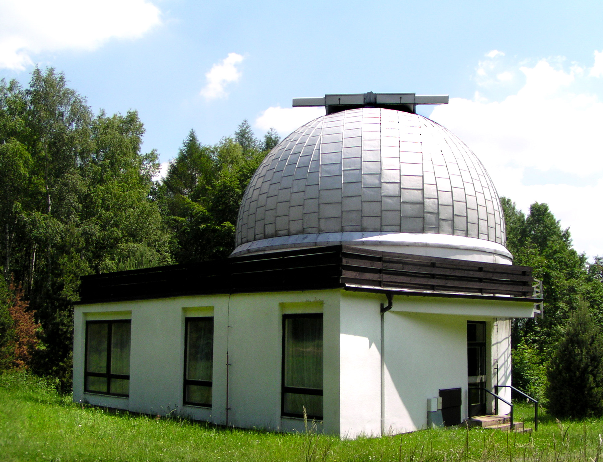 Dome of 0.65-m reflector at the Czech Astronomical Institute in Ondřejov